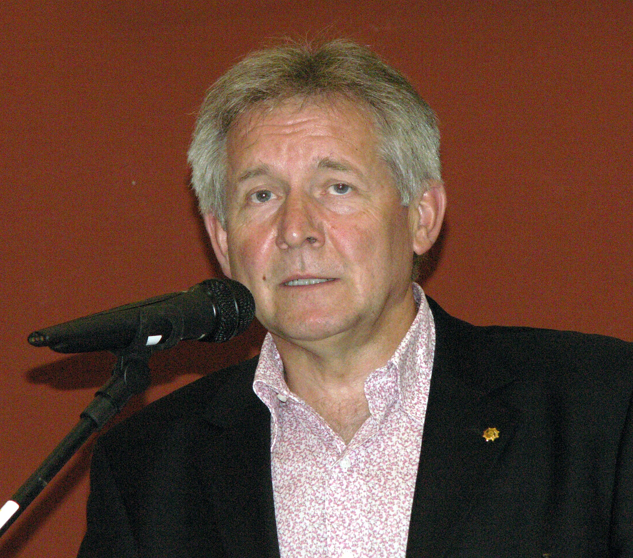 Algis Sysas, Lithuania